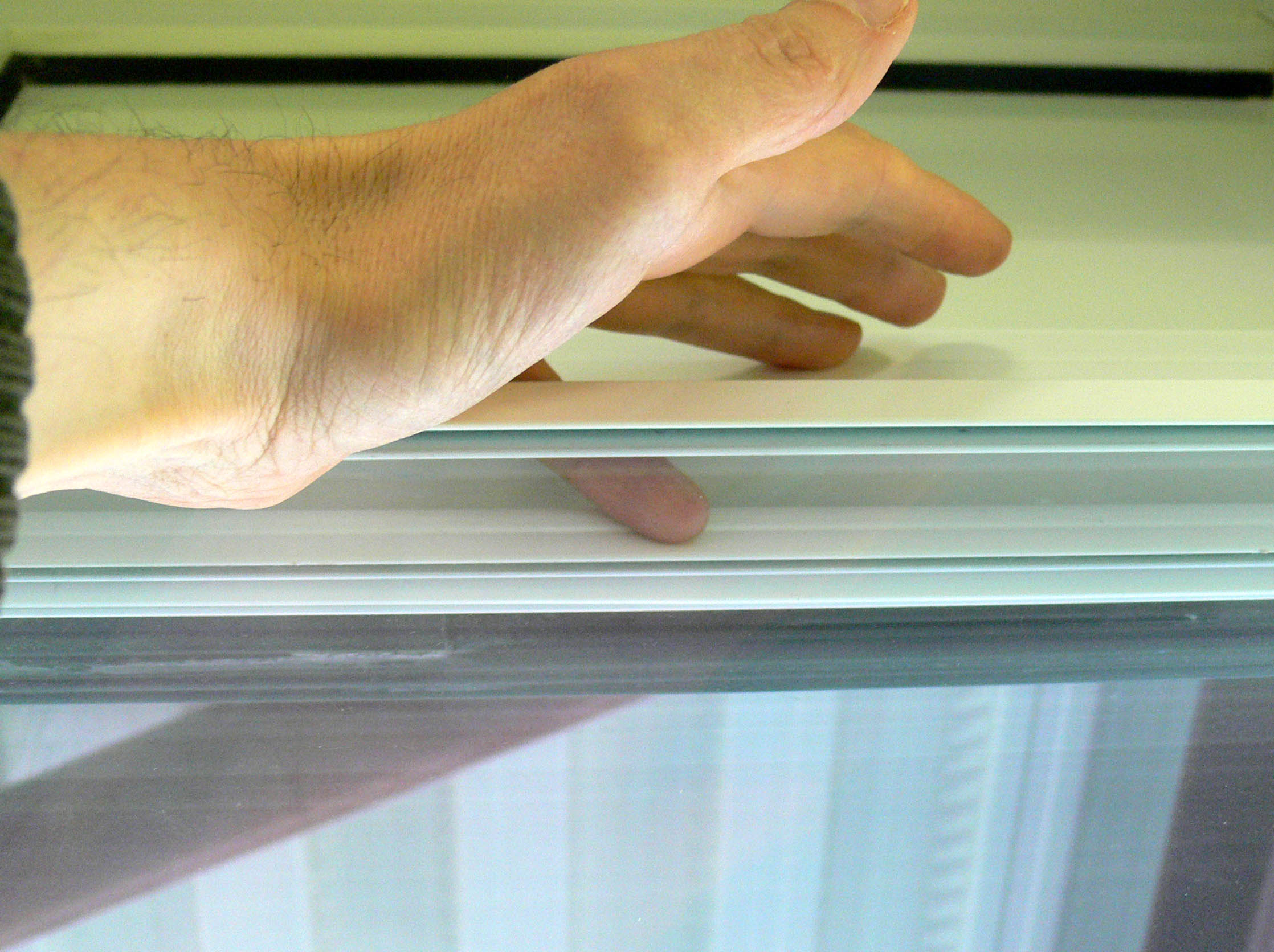 Down part of au Special windows in a Retirement home (for energy efficiency), in Trith-Saint-Léger, in north of France, (dept : 59) in Nord-Pas-de-Calais region, made with ecological principles.